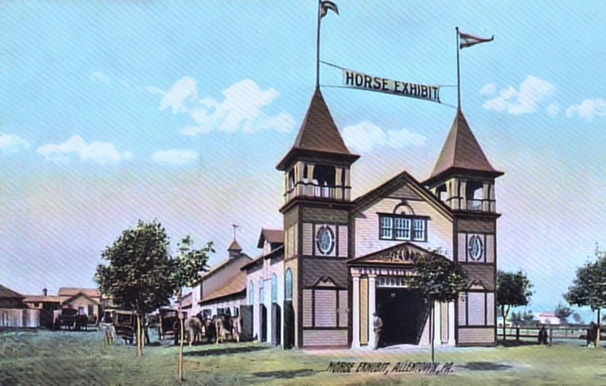 Horse exhibit image from Allentown Fair in Allentown.